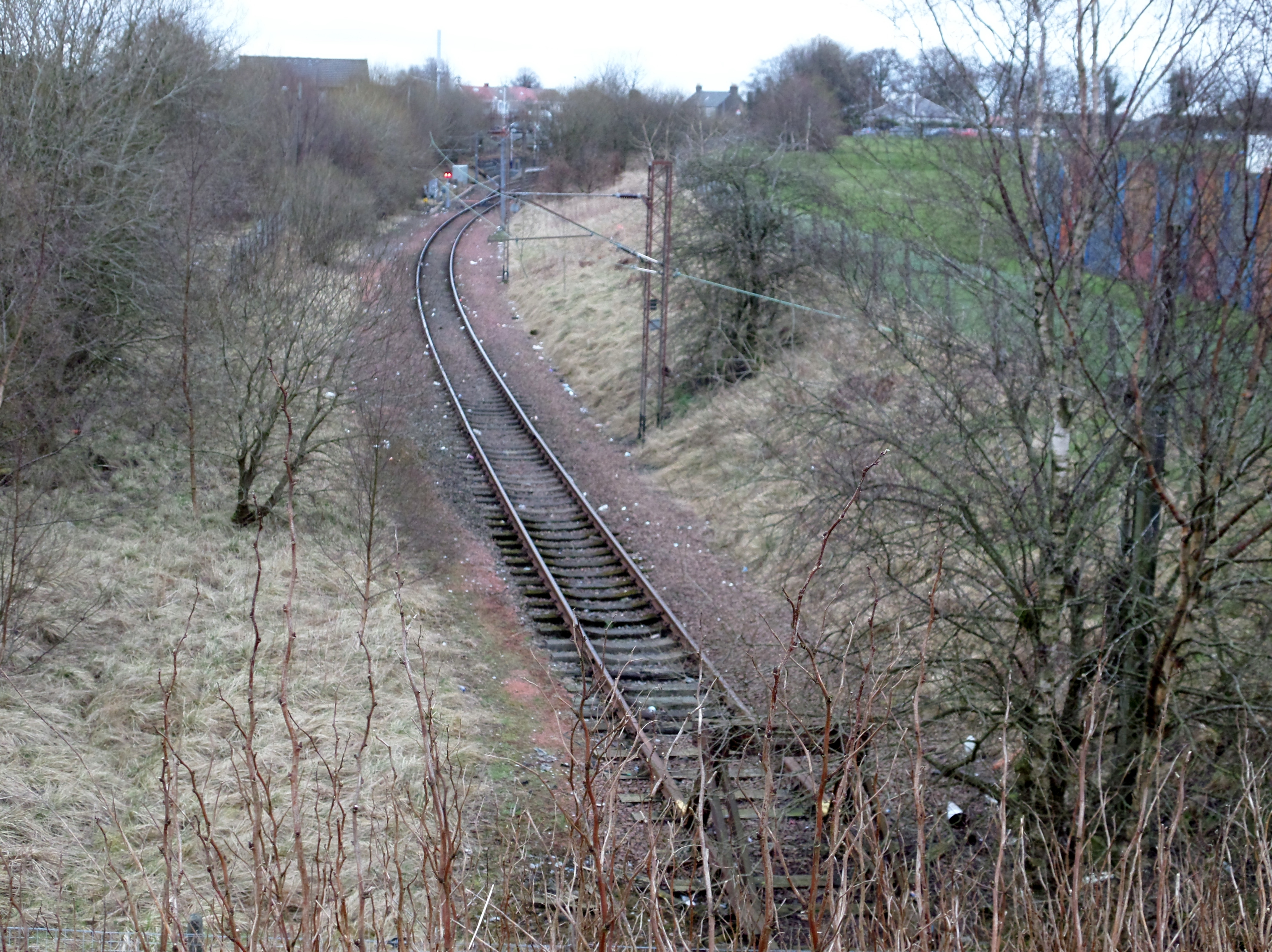 Neilston Station, stump of the old L&AR line, East Renfrewshire, Scotland